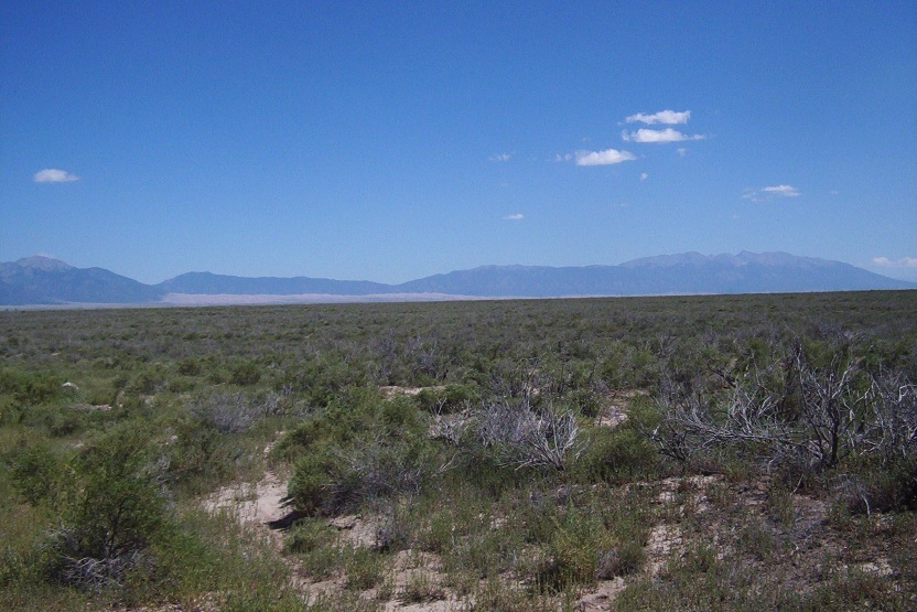 Typical greasewood and rabbitbrush "chico" vegetation in the Closed Basin of the northern San Luis Valley in Colorado. Taken just south of the bridge over La Garita Creek on Highway 17 between Hooper and Moffat Colorado. View is to the southeast. The Great Sand Dunes are in the background as are the Sangre De Cristo Mountains.